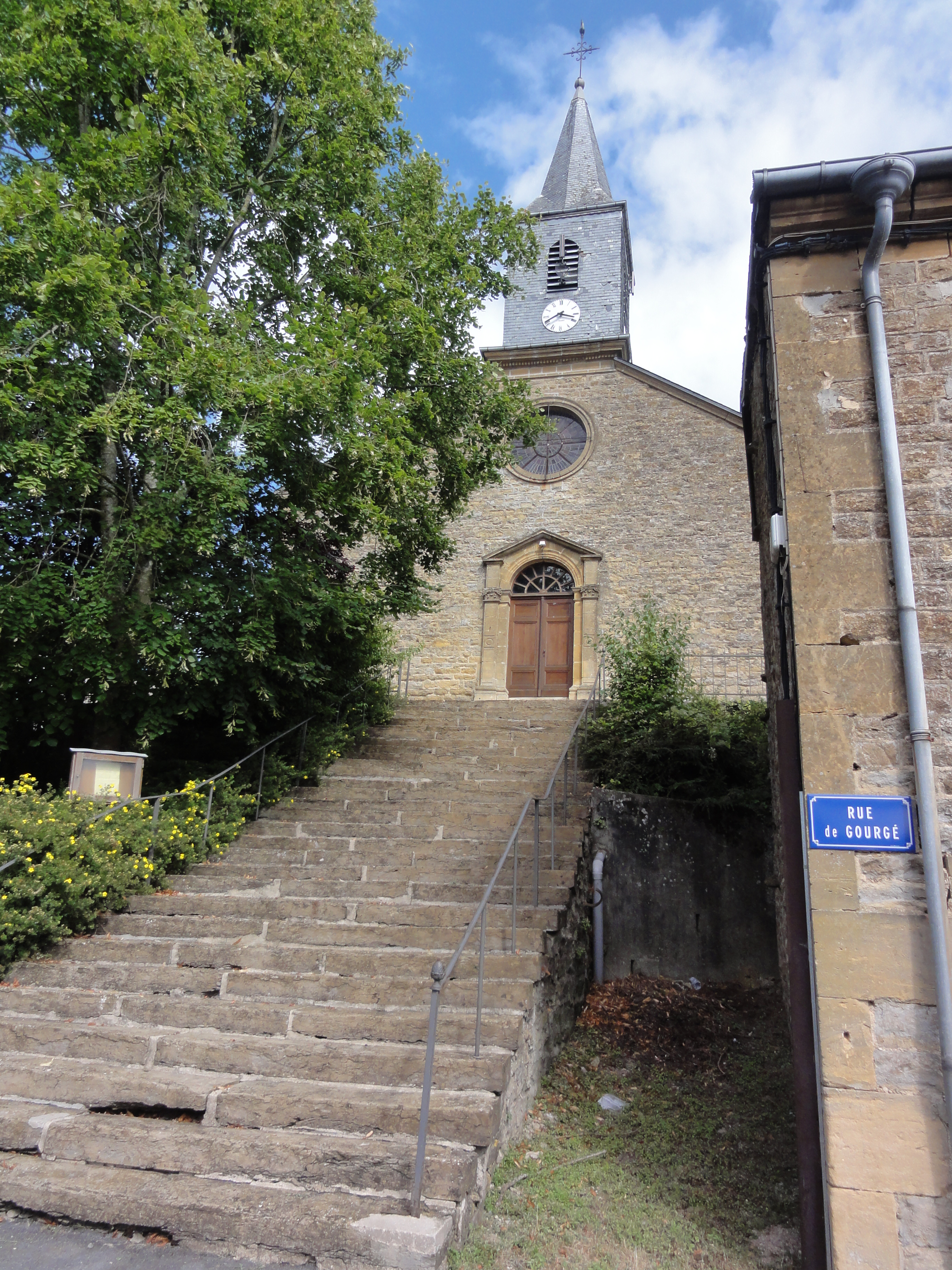 Houldizy (Ardennes) l'église et son escalier d'acces